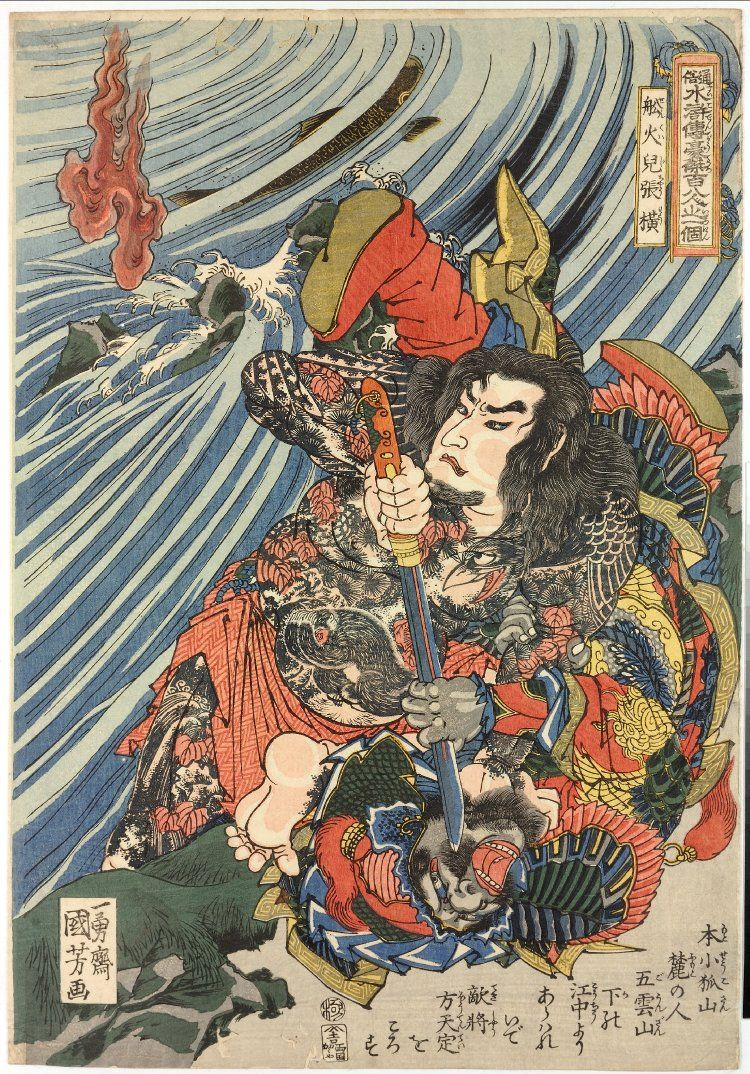 Zhang Heng (張橫) stripped to reveal his full-body tattoos, about to kill the enemy general Fang Tianding (方天定) with his sword, looks back at a supernatural flame appearing over the river behind him.